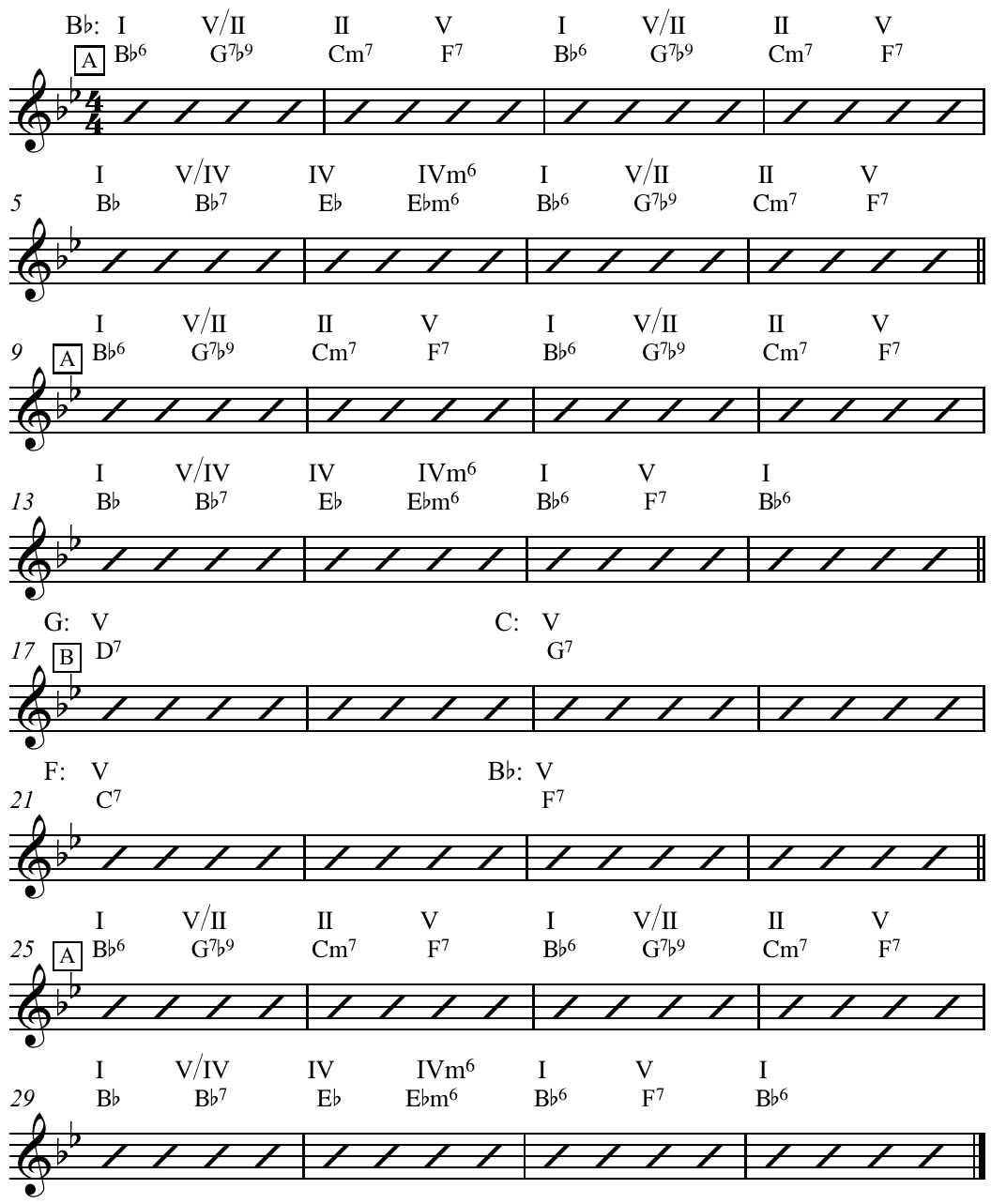 Complete 32-bar rhythm changes in B♭, as commonly used for improvisation.